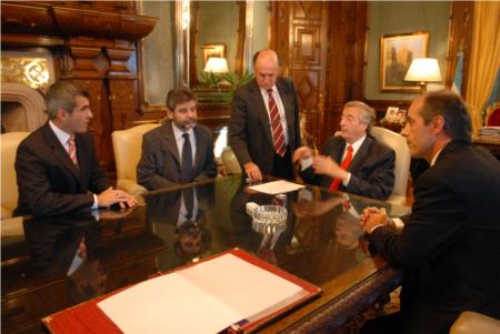 The president of Argentina, Néstor Kirchner, with the FIFA referee Horacio Elizondo and others politicians.